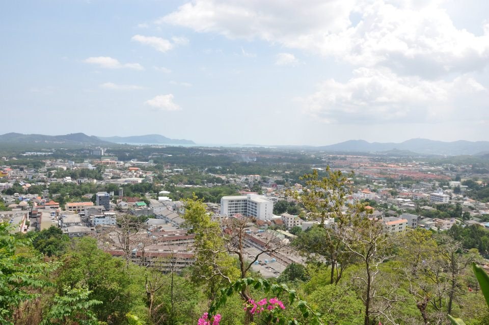 Oak took this picture when he was visiting Phuket in April 2012.